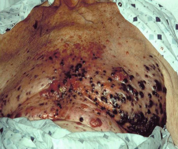 This image depicts a patient’s chest, which displays numerous darkly-pigmented cutaneous lesions, which had been diagnosed as malignant melanoma (MM). When diagnosing MM from a gross pathologic perspective, i.e., with the naked eye, a physician must keep in mind the “ABCDE” rule, which represents: - A = Asymmetry – Is the shape of the lesion(s) symmetrical, evenly distributed/shaped? - B = Border Irregularity – Is the border of the lesion(s) smooth or rough? - C = Color Variability – Is the lesion(s) multicolored, or of a single color? - D = Diameter – Is the lesion(s) greater than 6mm (0.24in.)? - E = Evolution – How did the lesion(s) evolve over time, i.e., did it appear, or change, quickly, or over a long period of time?